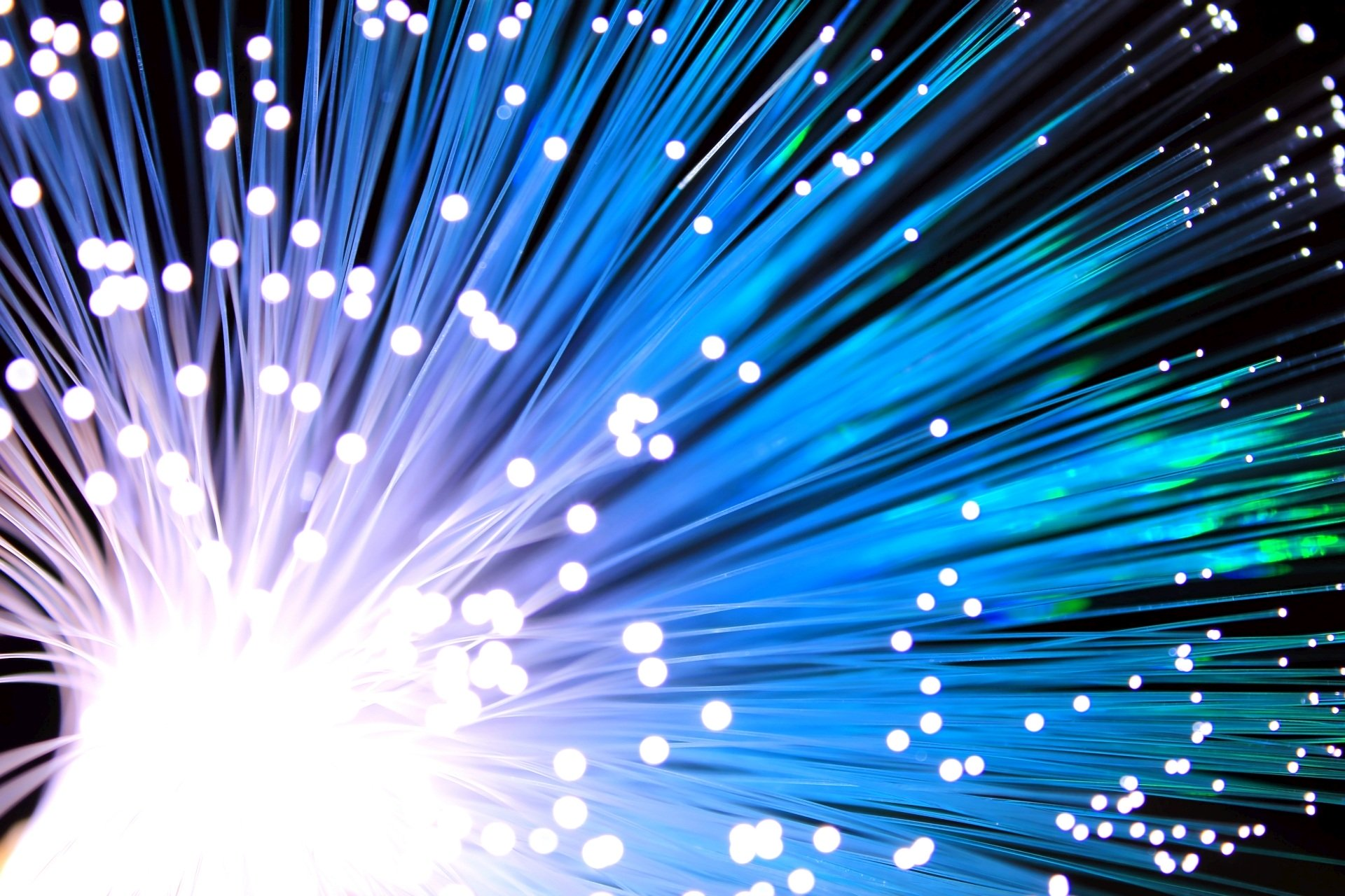 A single-mode fibre optical cable with light passing through.